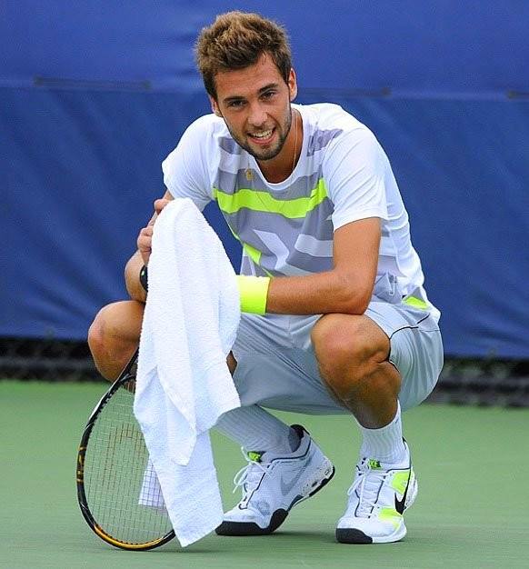 Benoit au 1er tour de l'US Open